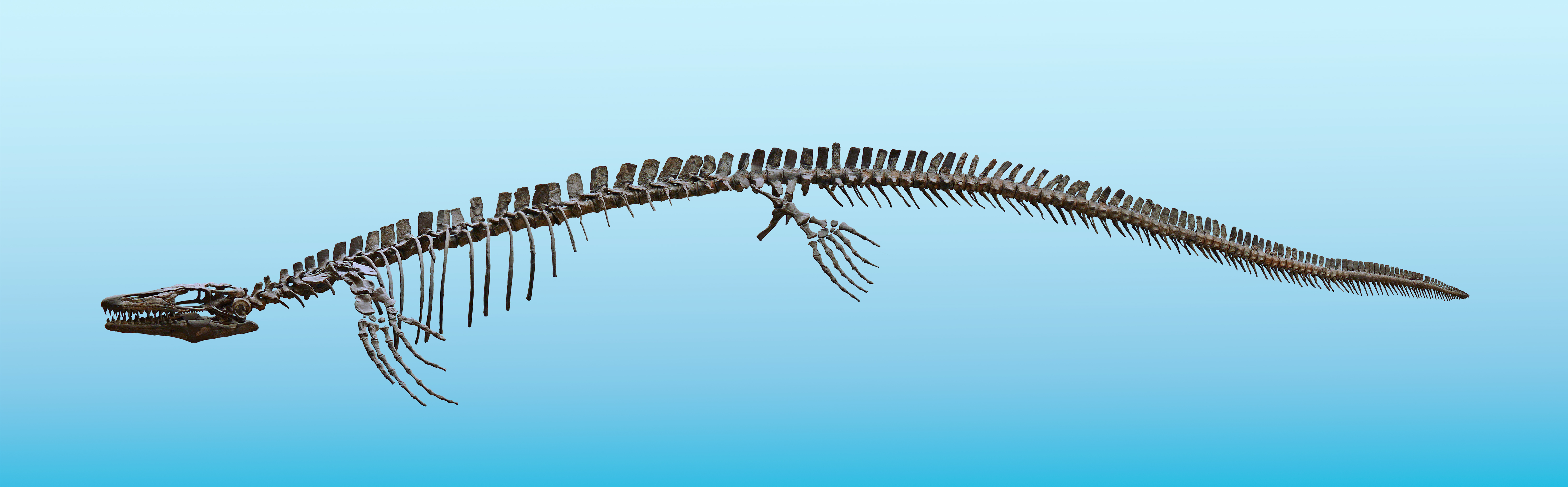 Plioplatecarpus spec. (most probably Plioplatecarpus ictericus), Mosasauridae; Length ca. 5,5 m; Niobrara formation, Upper Cretaceous, Kansas, USA; Composite of at least two skeletons; Staatliches Museum für Naturkunde Karlsruhe, Germany.